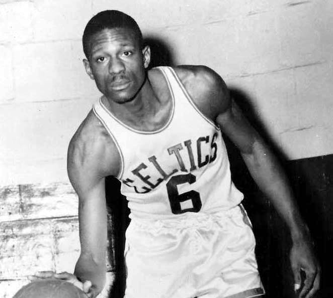 Former Boston Celtics player, Bill Russell, during his first years with the franchise.